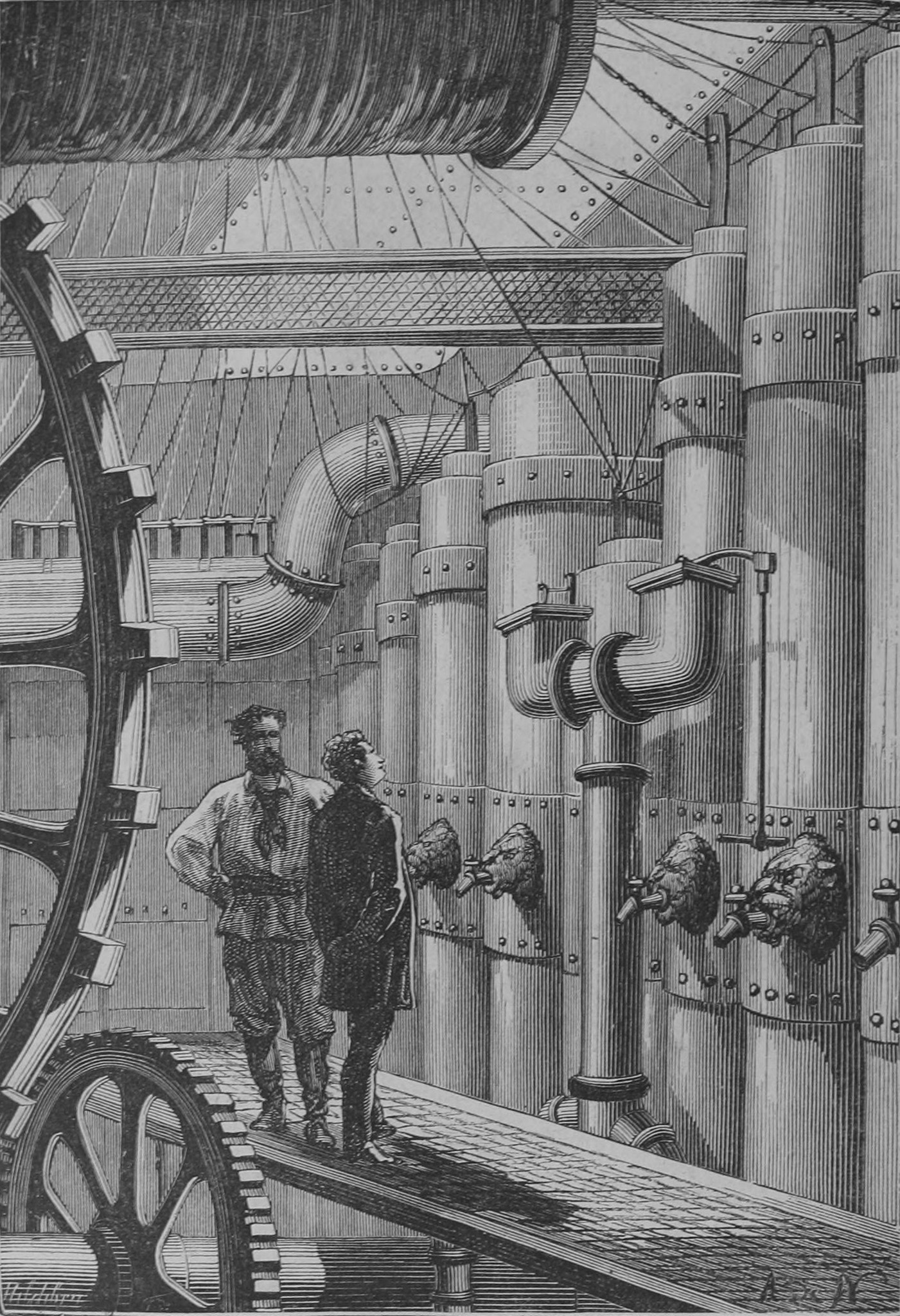 Image from page 98 of scan vingtmillelieue00vern_orig_0098.jp2